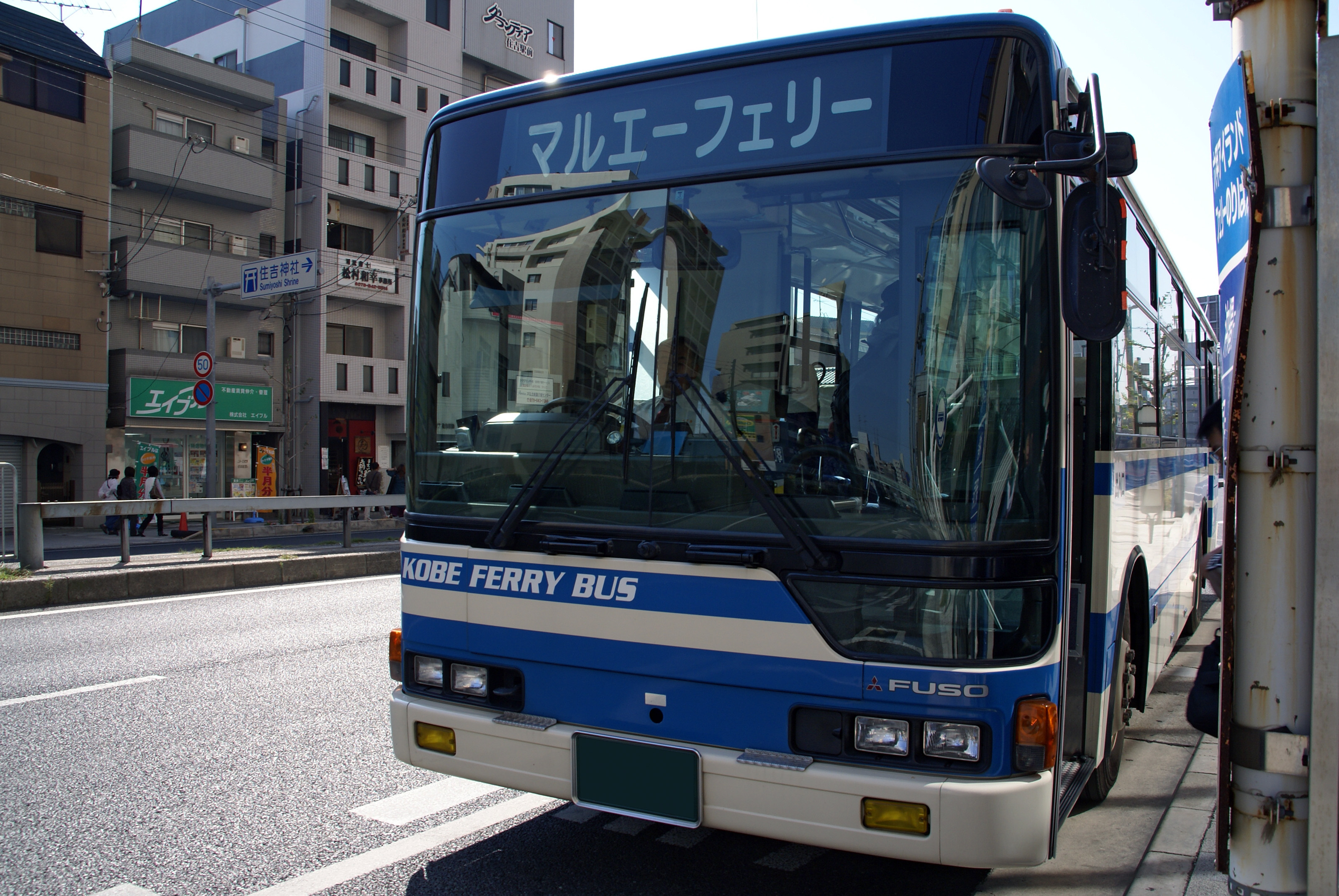 JR Sumiyoshi Station in Kobe, Hyogo prefecture, Japan